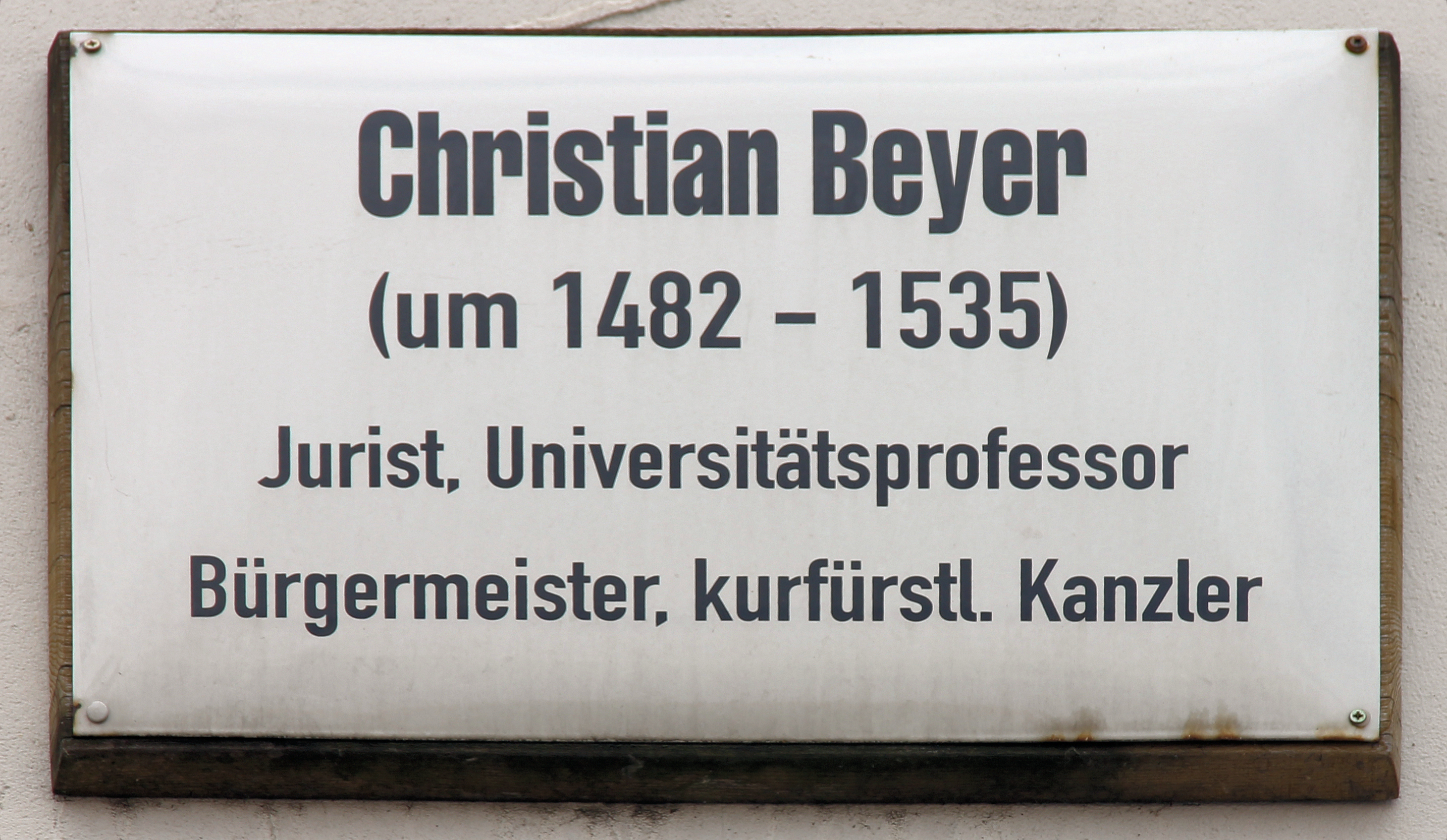 Memorial plaque, Christian Beyer, Markt 3, Lutherstadt Wittenberg, Germany Koordinate:51°51′58″N 12°38′36″E / 51.86611°N 12.64333°E